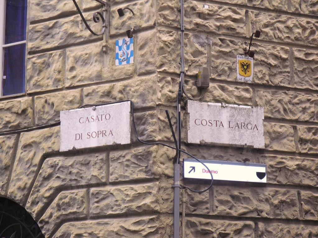 Plaques of Onda (Wave) and Aquila (Eagle) on the border between the two Contradas in Siena.